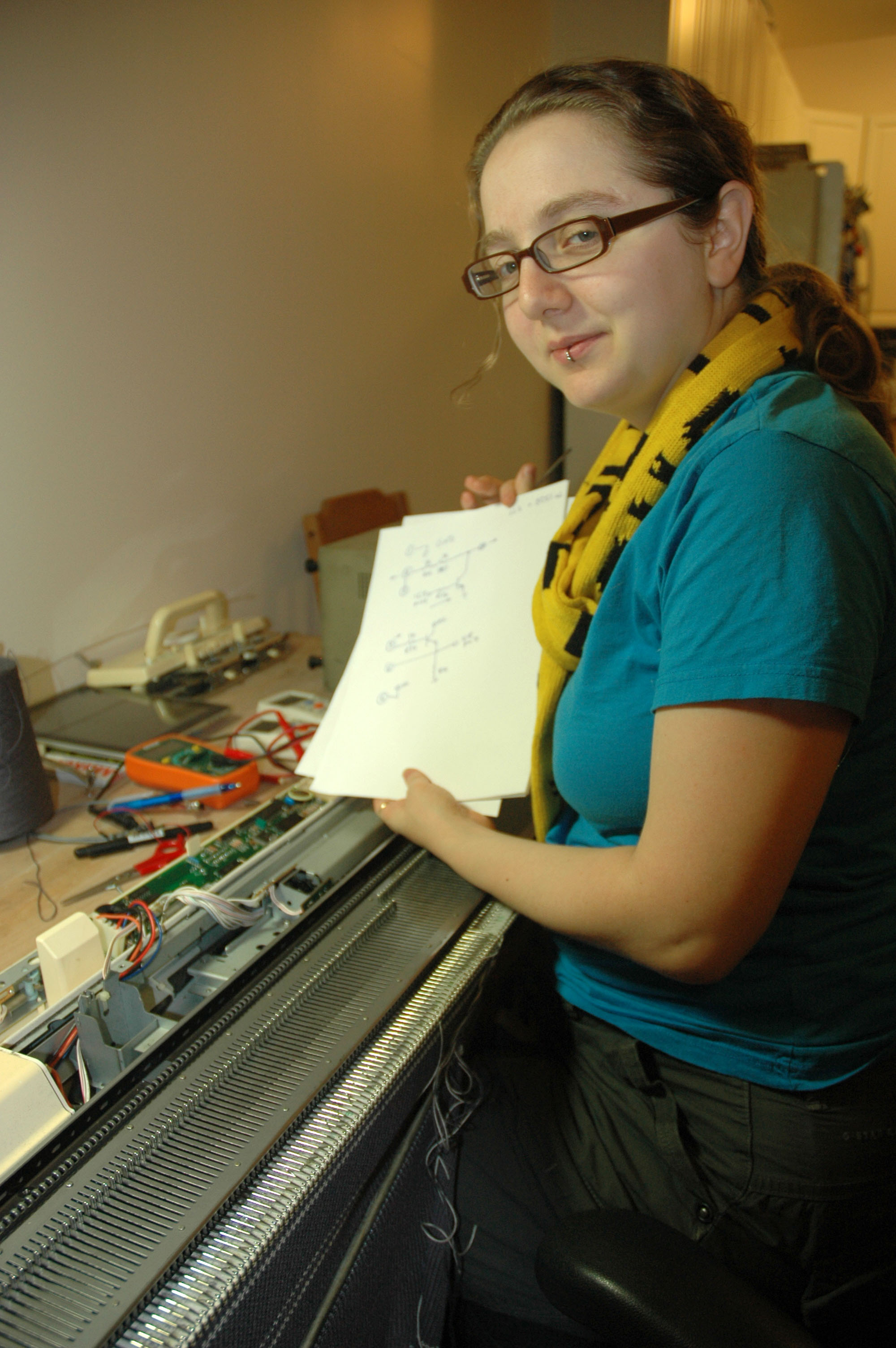 Limor and the knitting machine